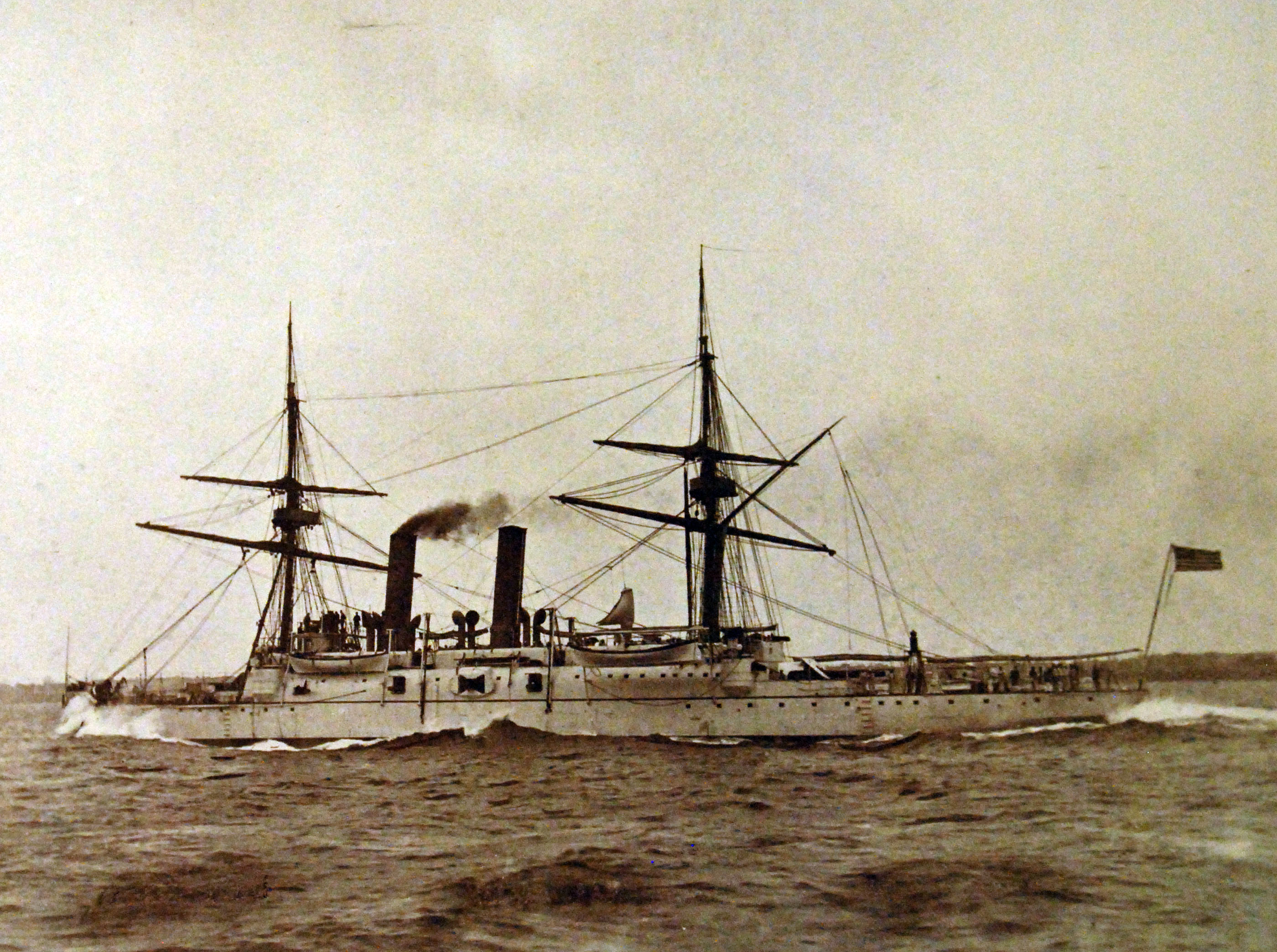 Lot 3000-K-24: U.S. Navy protected cruiser, USS Boston, port stern view during speed trials. Detroit Publishing Company, 1890-1912. Courtesy of the Library of Congress. (2016/03/25).